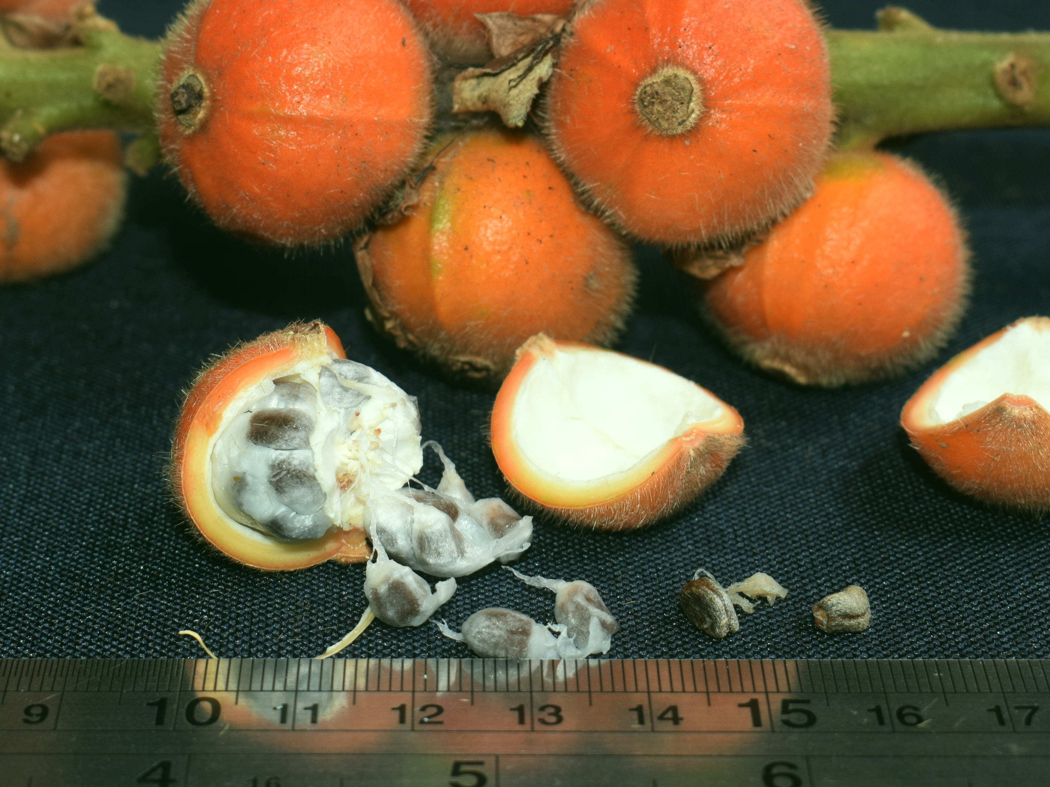 Alpinia (Catimbium) malaccensis; opened fruit, with many seeds enclosed in arils. From Bogor, West Java, Indonesia.